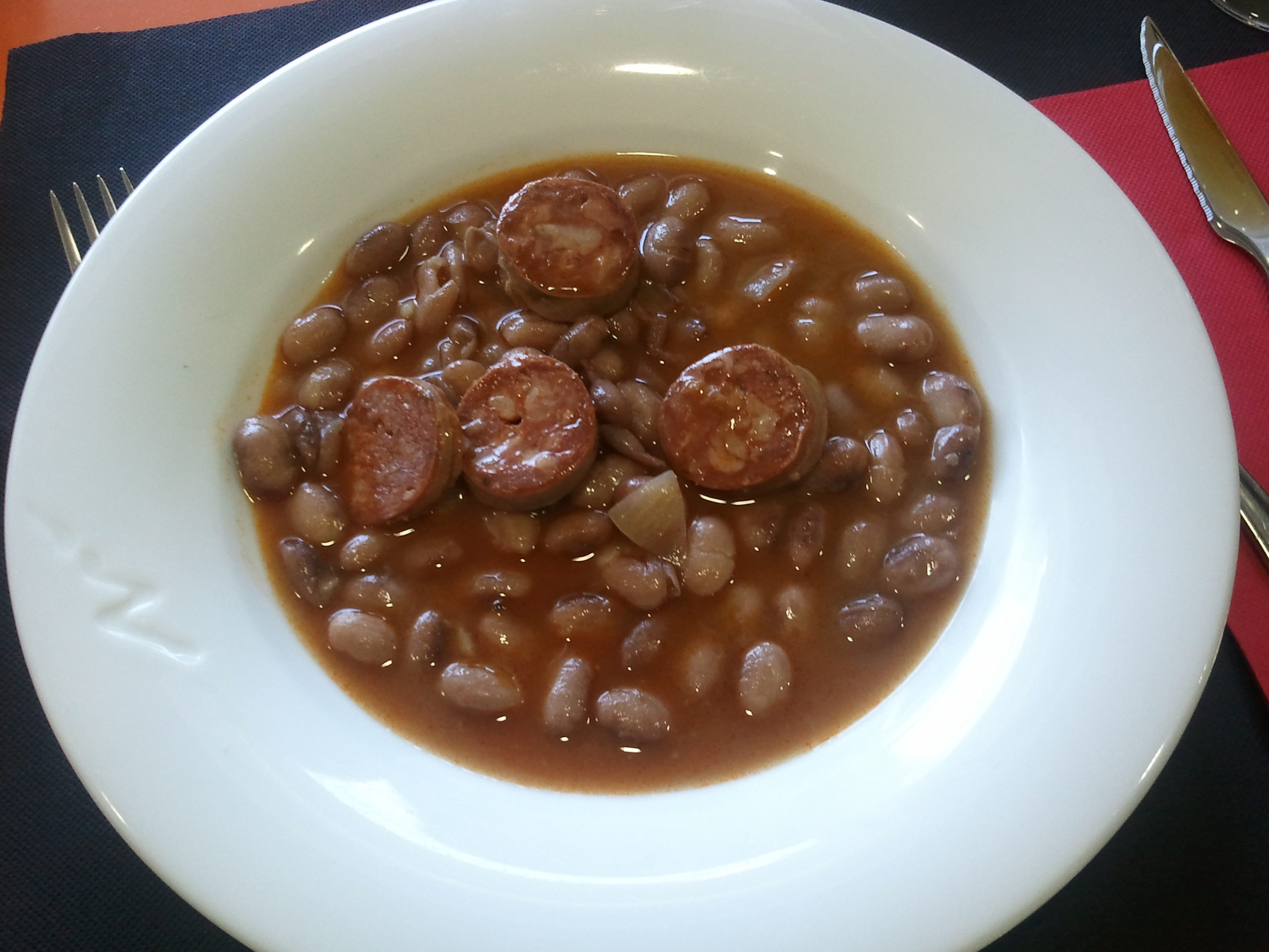 Colored beans with chorizo, Amblés Valley, Ávila, Spain.